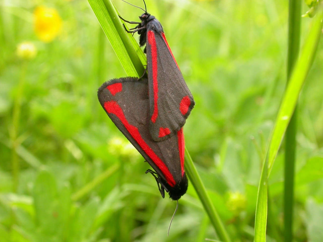 Cinnabar moths (Tyria jacobaeae) mating, New Zealand. The species was introduced to control an introduced weed, ragwort (Senecio species).